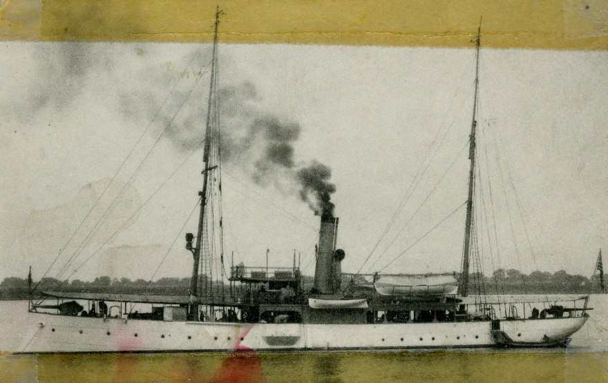 The USS Quiros (PG-40), a schooner rigged composite gunboat, in Wuhu, China, c. 1905-1913.